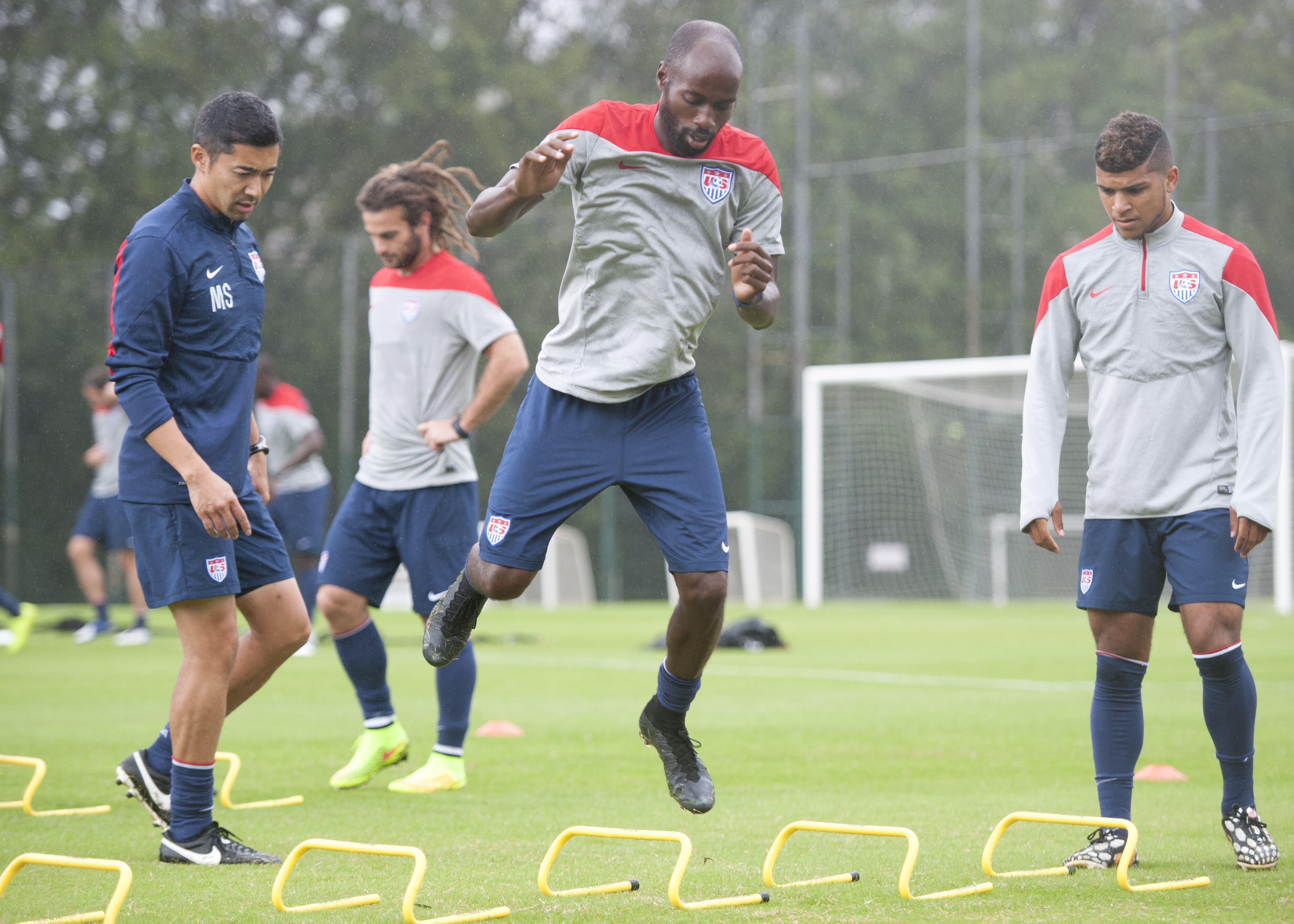 United States defender DeMarcus Beasley goes through warm-up exercises before training at Sao Paulo FC's training ground in Sao Paulo, Brazil on June 10, 2014.